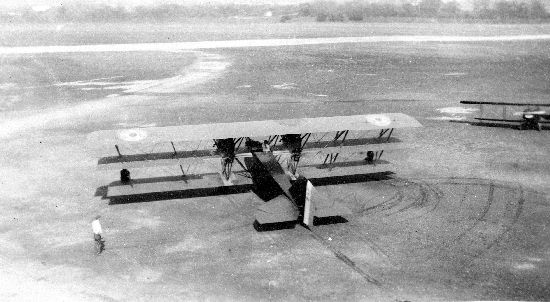 Top view of the Boeing GA-1 triplane